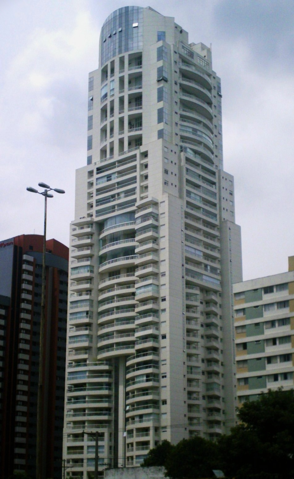 Mandarin Building in São Paulo, Brazil